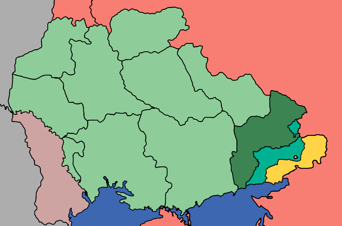 Map of Ukrainian SSR (September, 1925)